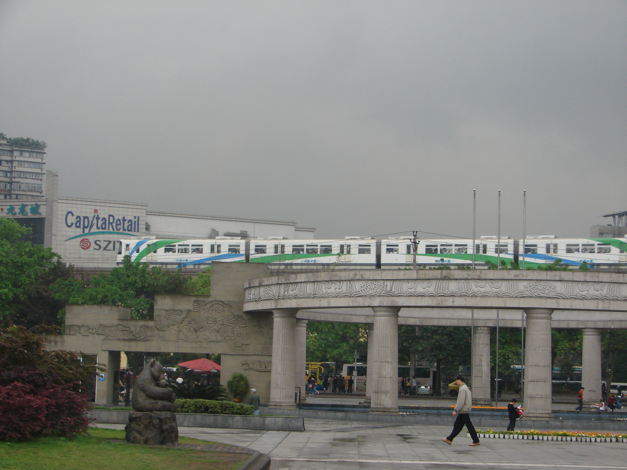 Chongqing Rail Transit